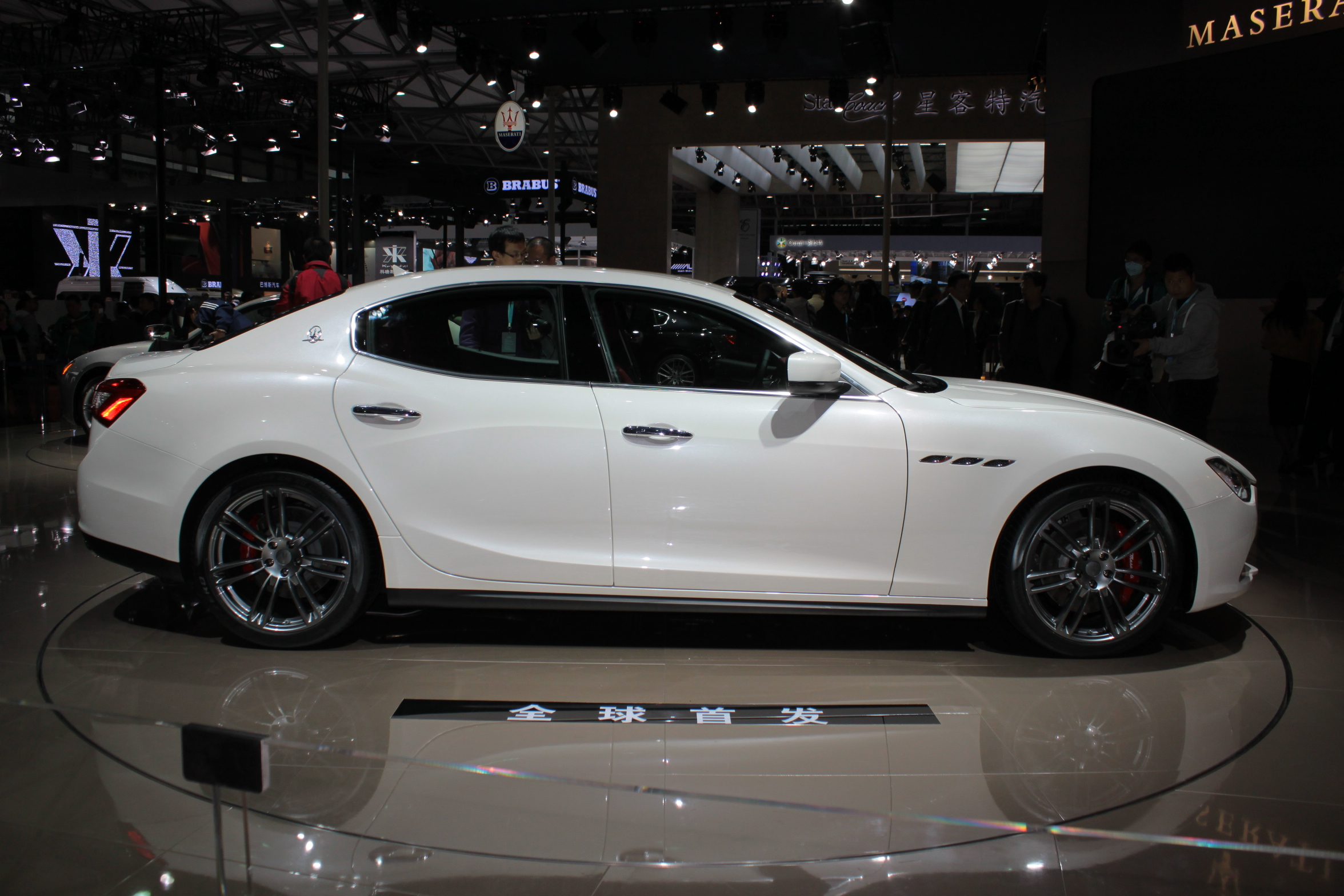 Maserati Ghibli III world premiere at AutoShanghai 2013